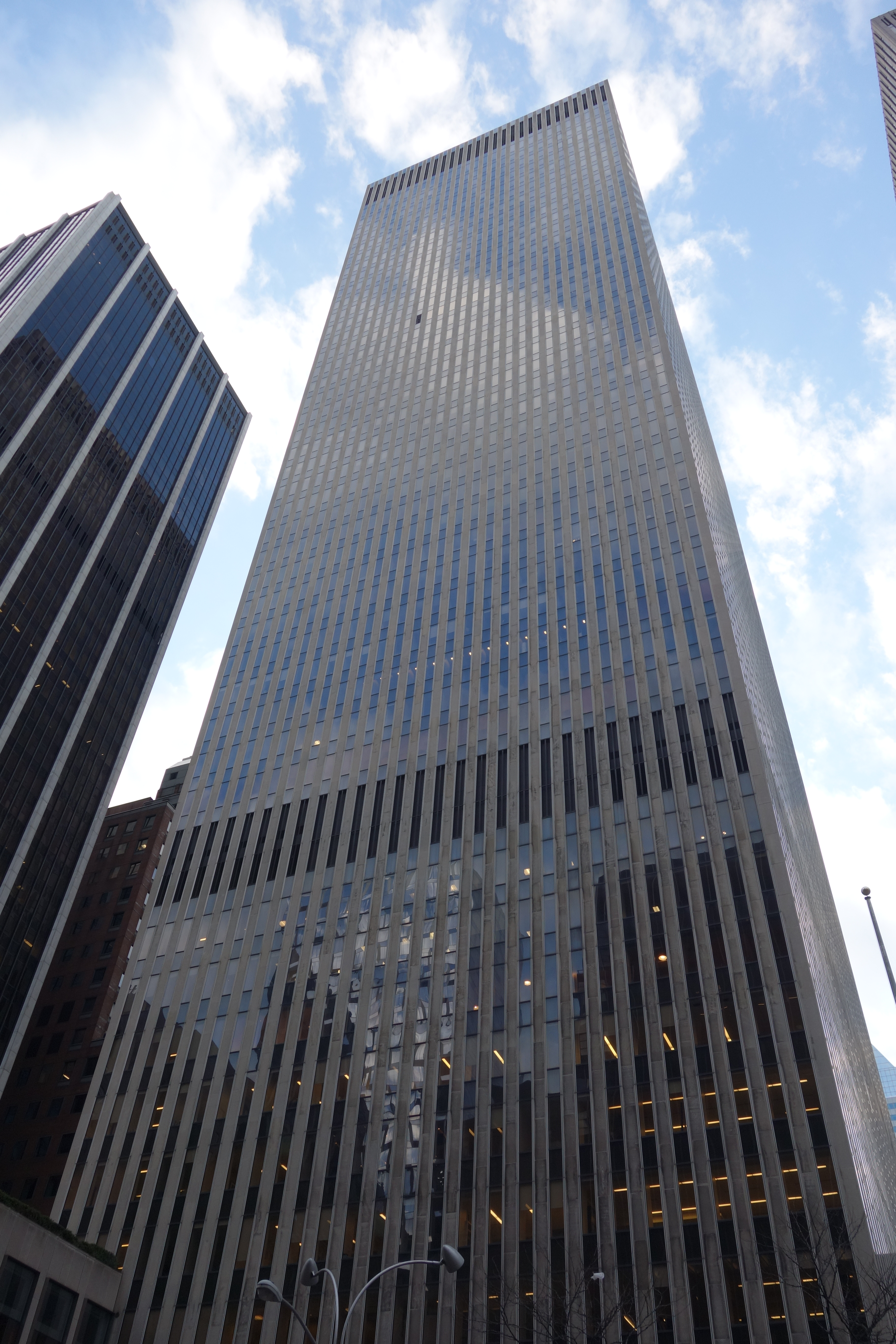 The News Corp / Fox News building (1211 Avenue of the Americas), at the southwest corner of Sixth Avenue and 48th Street in Rockefeller Center, Midtown Manhattan.